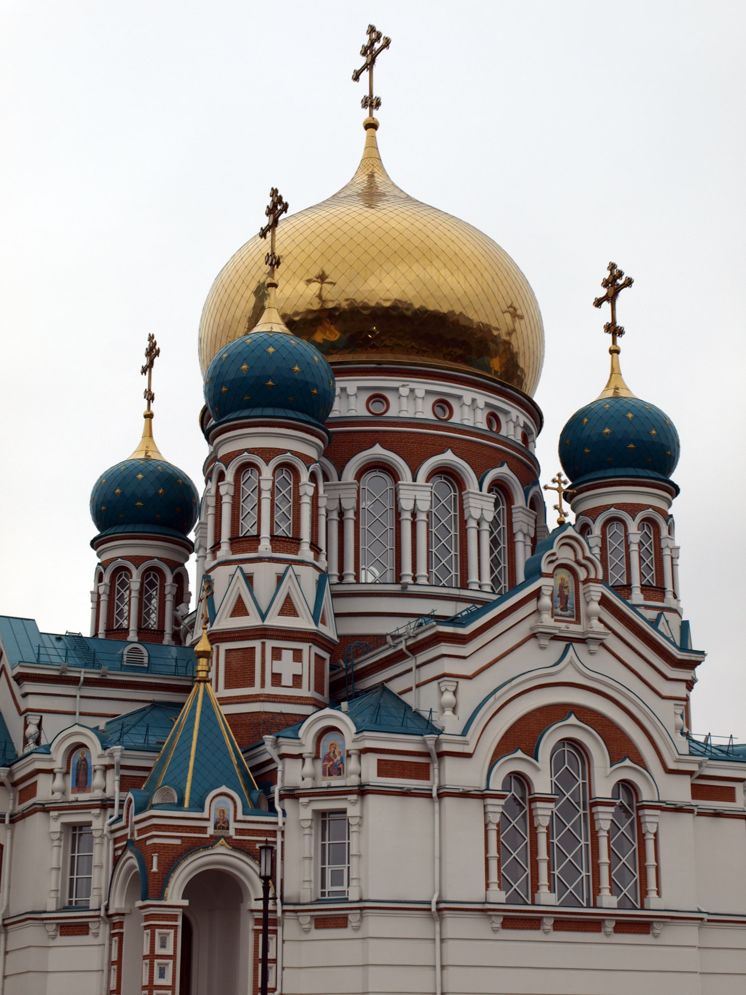 Dormition cathedral in Omsk